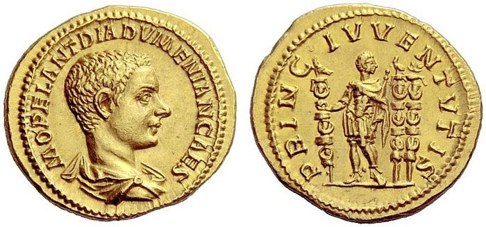 Diadumenianus Caesar, 217–218, Aureus late 217, AV 7.14 g. M OPEL ANT DIADVMENIAN CAES Bare-headed and draped bust r. Rev. PRINC IVVENTVTIS Diadumenian standing facing, head r., holding in r. hand standard and in l. sceptre; behind, two standards. C 2. BMC p. 509 note †. RIC Macrinus 101 var. (draped and cuirassed). Kent-Hirmer pl. 116, 412 (these dies). Calicó 2982.